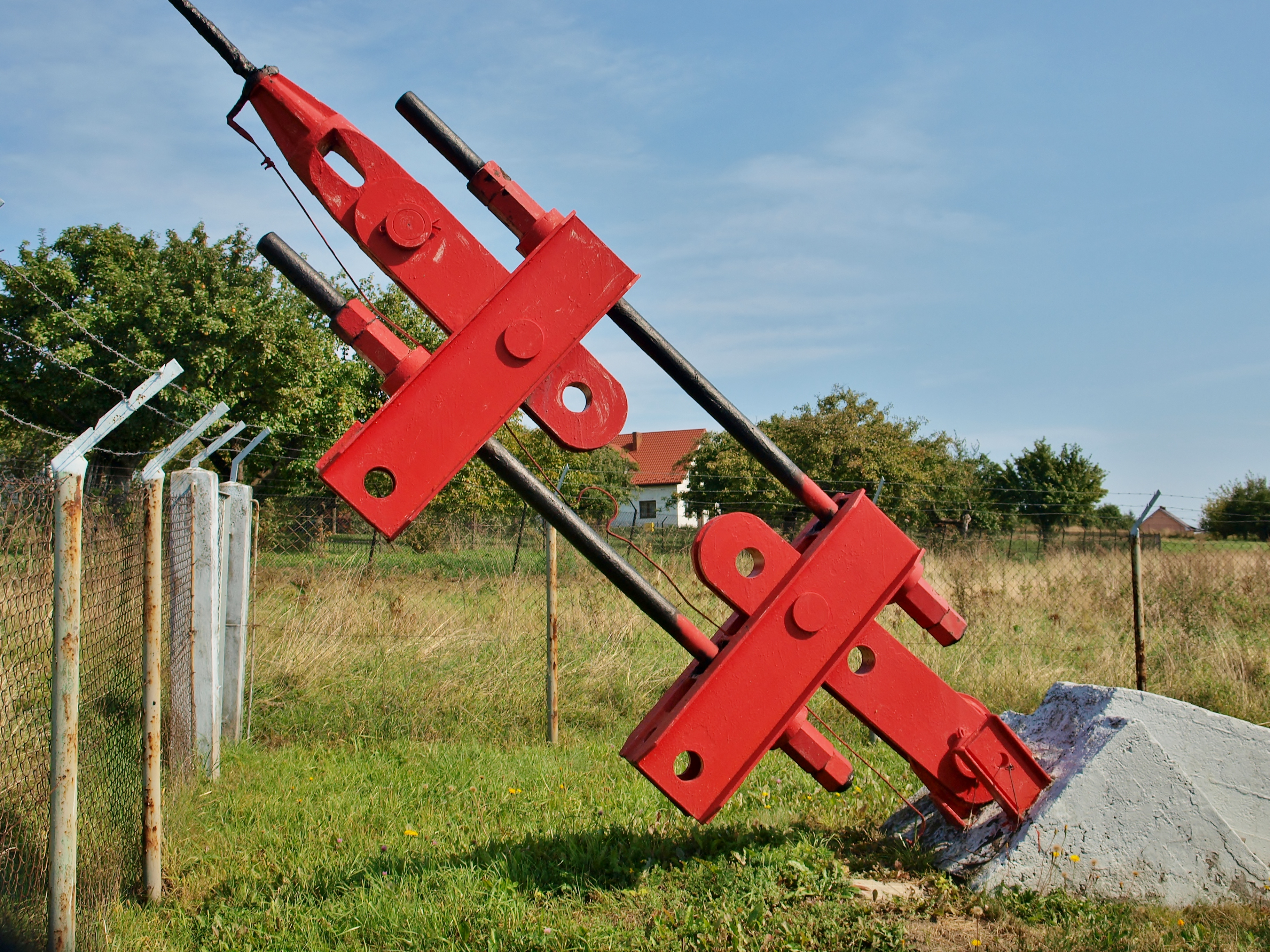 Chorągwica - the anchor with one of the 12 cables stabilizing and supporting the 286 meters high pole of RTV broadcasting center